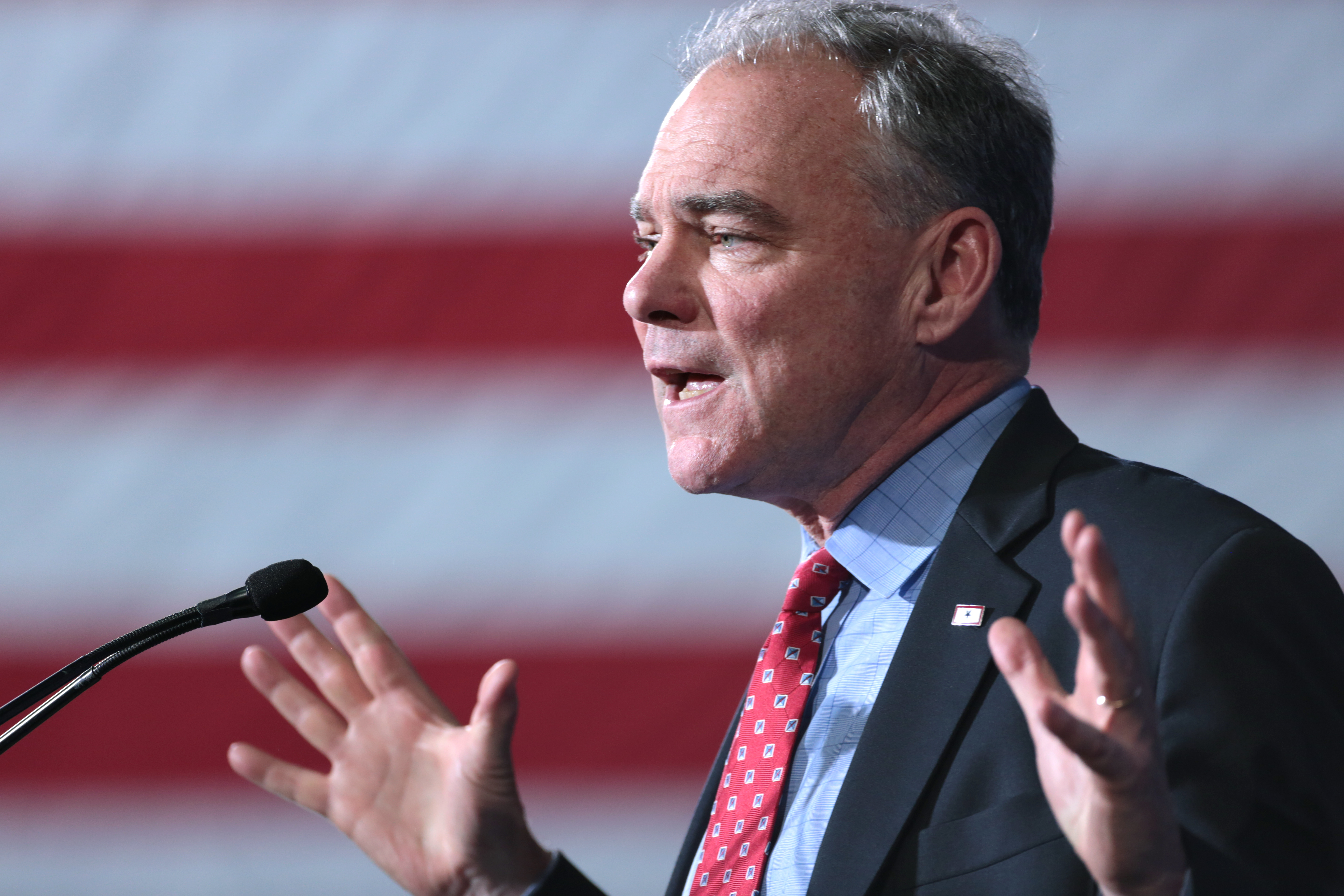 U.S. Senator Tim Kaine speaking with supporters at a campaign rally at the Maryvale Community Center in Phoenix, Arizona.